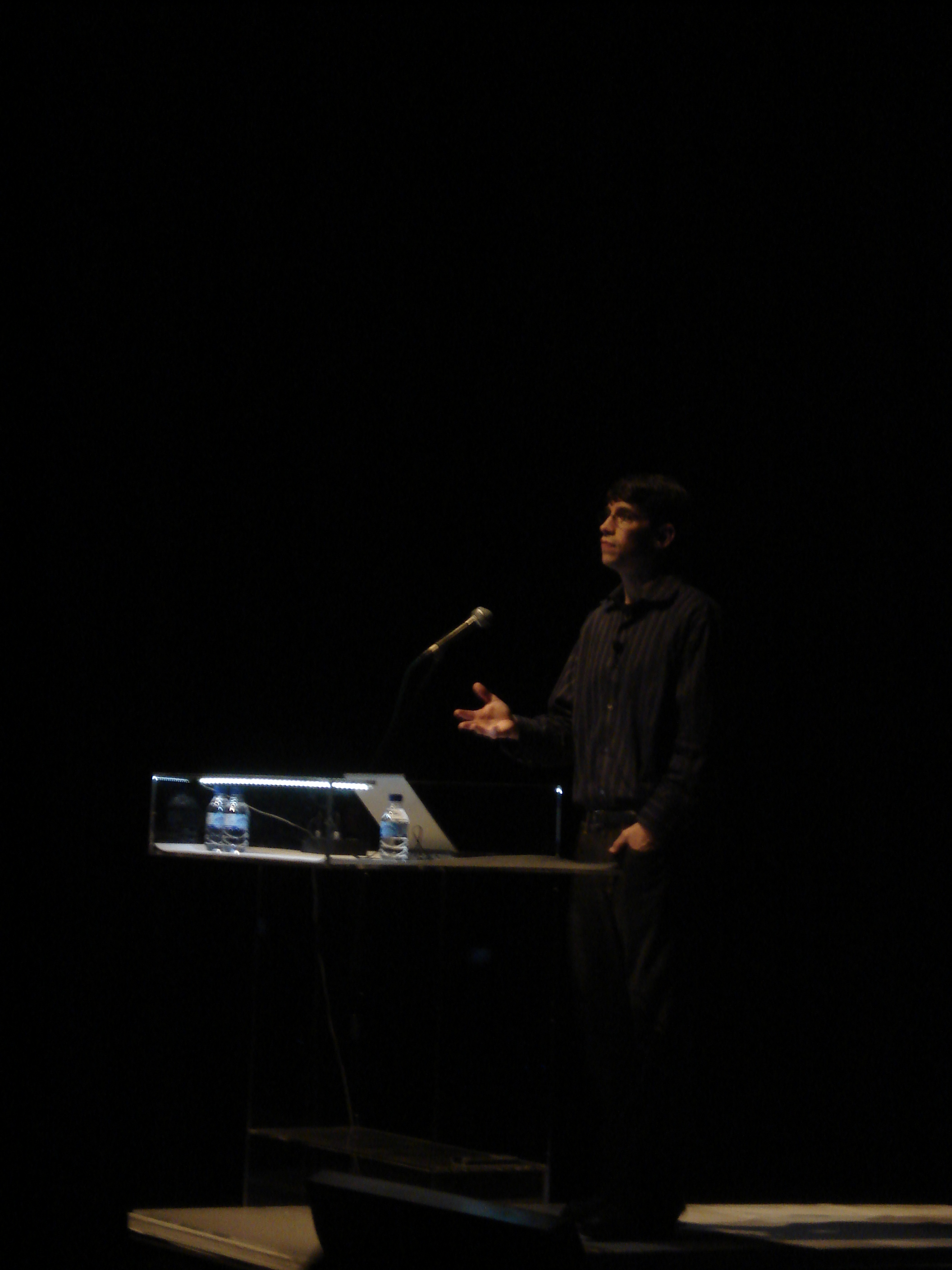 Ted Price, president and CEO of Insomniac Games, at the ArtFutura 2006.